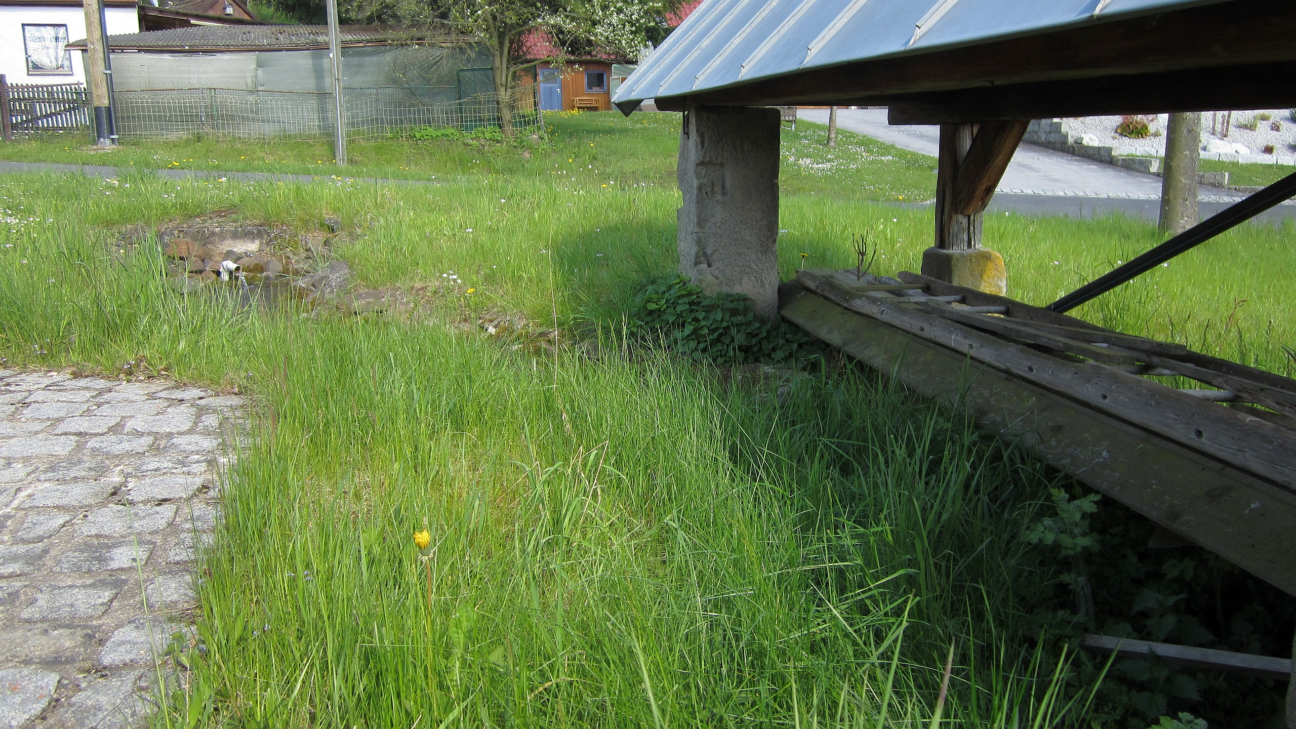 Source in Altencreußen (Prebitz), Upper Franconia